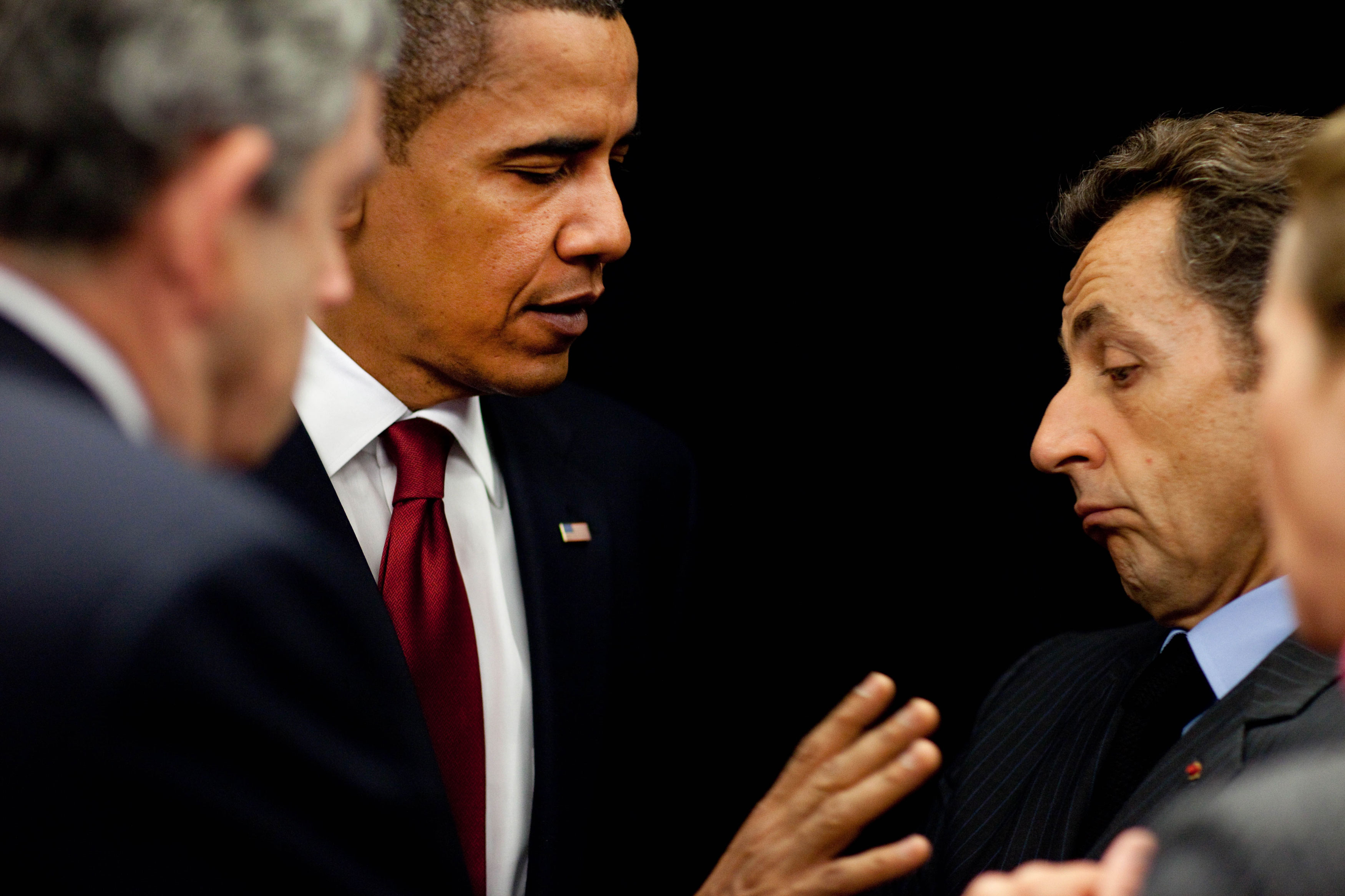 President Barack Obama talks with French President Nicolas Sarkozy and British Prime Minister Gordon Brown during the G-20 Summit in Pittsburgh, Pa., Sept. 25, 2009.